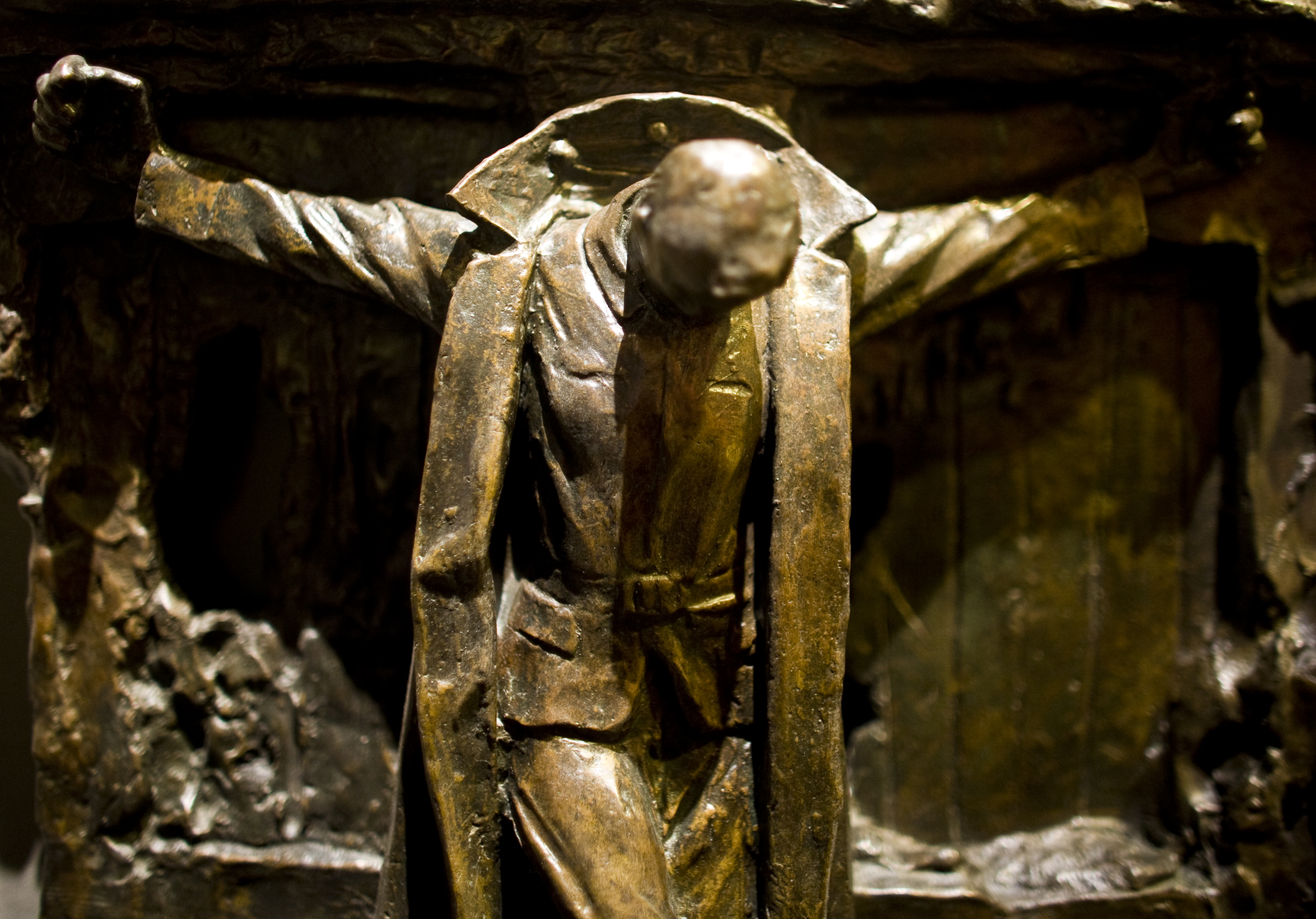 Canada's Golgotha is a 32-inch high bronze sculpture by the British sculptor Francis Derwent Wood, produced in 1918. It illustrates the story of the Crucified Soldier from the First World War and depicts a Canadian soldier crucified on a barn door and surrounded by jeering Germans. Although now on display at the Canadian War Museum, the piece was not exhibited between 1919-89 due to its controversial nature.